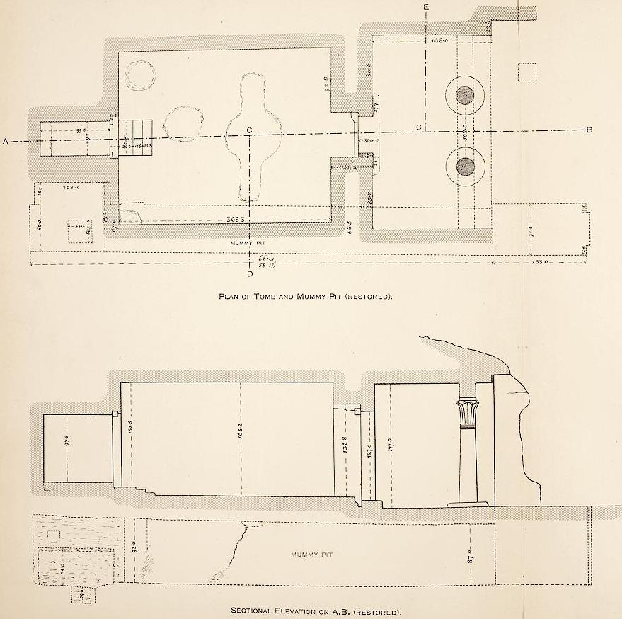 Plan of Tomb of Djehutihotep II